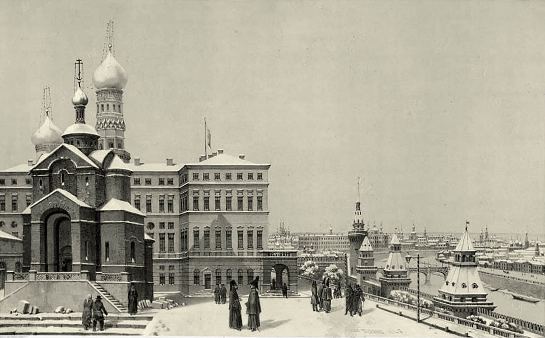 View from the Winter Kremlin Palace across the Moscow River. Title: "Palais Impérial dit de Paul I: Terrasse du Kremlin". From albume "Voyage pittoresque et archéologique en Russie", №70